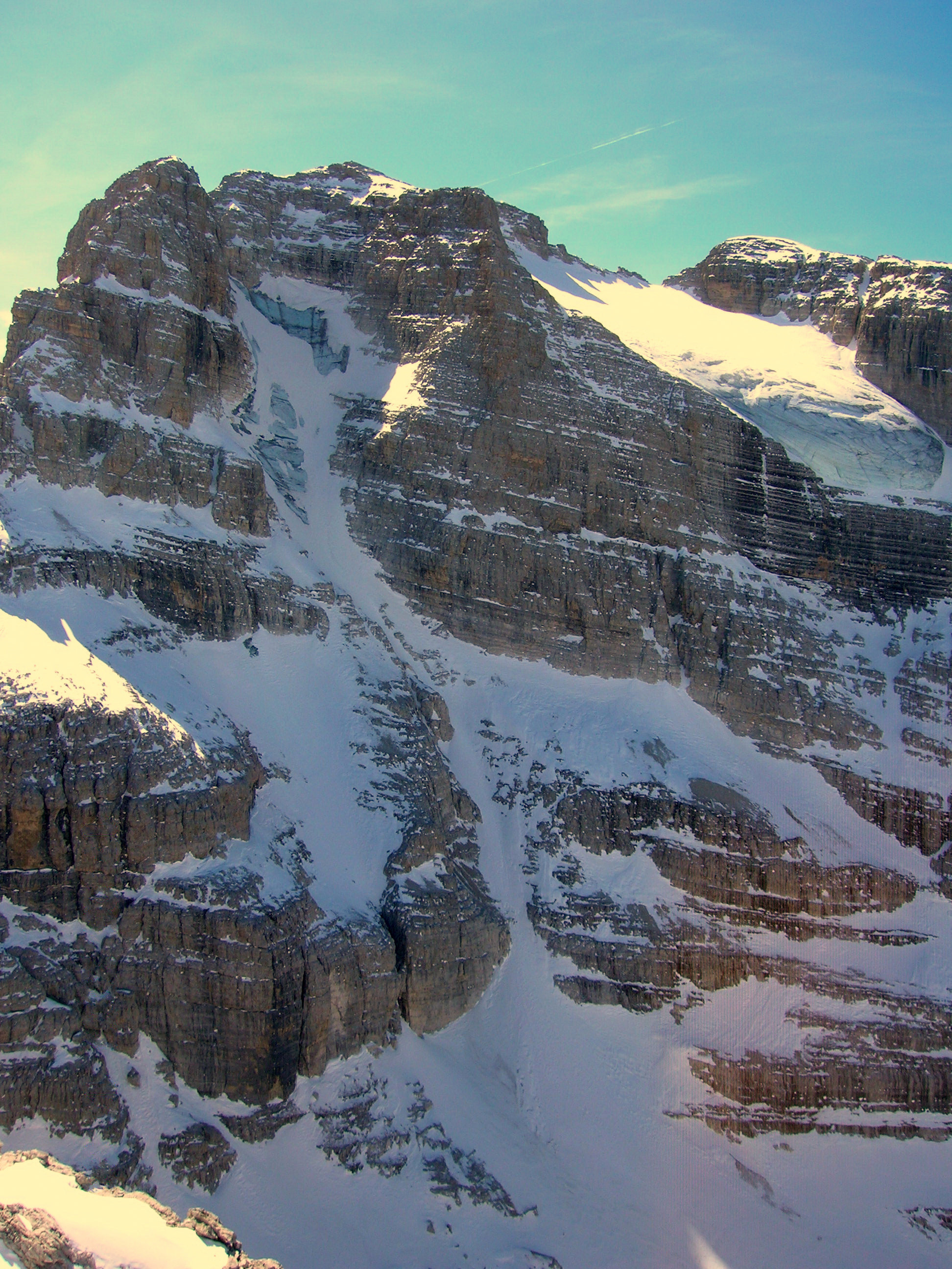 Cima Brenta, parete nord, dalla cima Sella